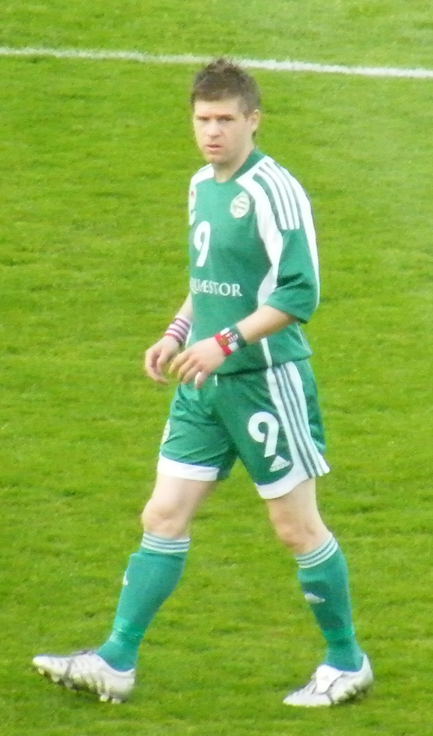 Zoltán Böőr Hungarian football player